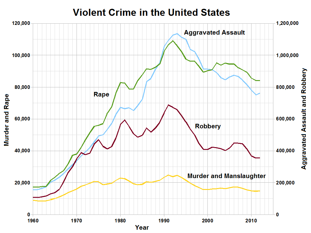 Violent crime in the United States. Source: [1]